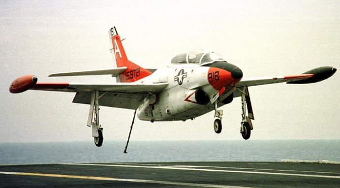 T-2 Buckeye. Navy pic, public domain